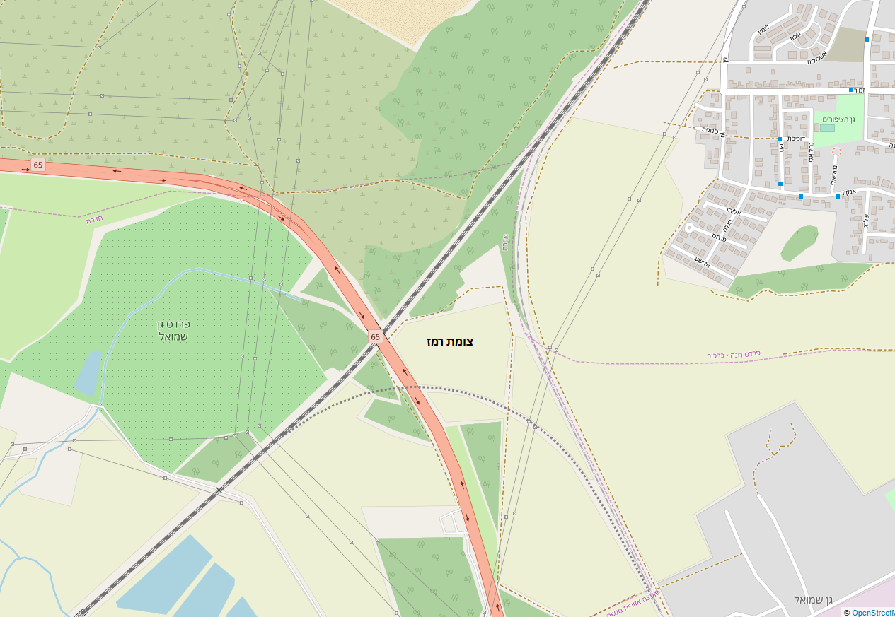 Remez Railway Junction